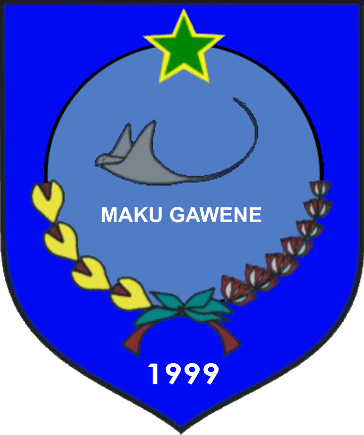 Lambang (Coat of Arms) of Kota (City) of Ternate, Provinsi Maluku Utara (North Maluku) (the Molucca islands, aka The Spice Islands), Indonesia